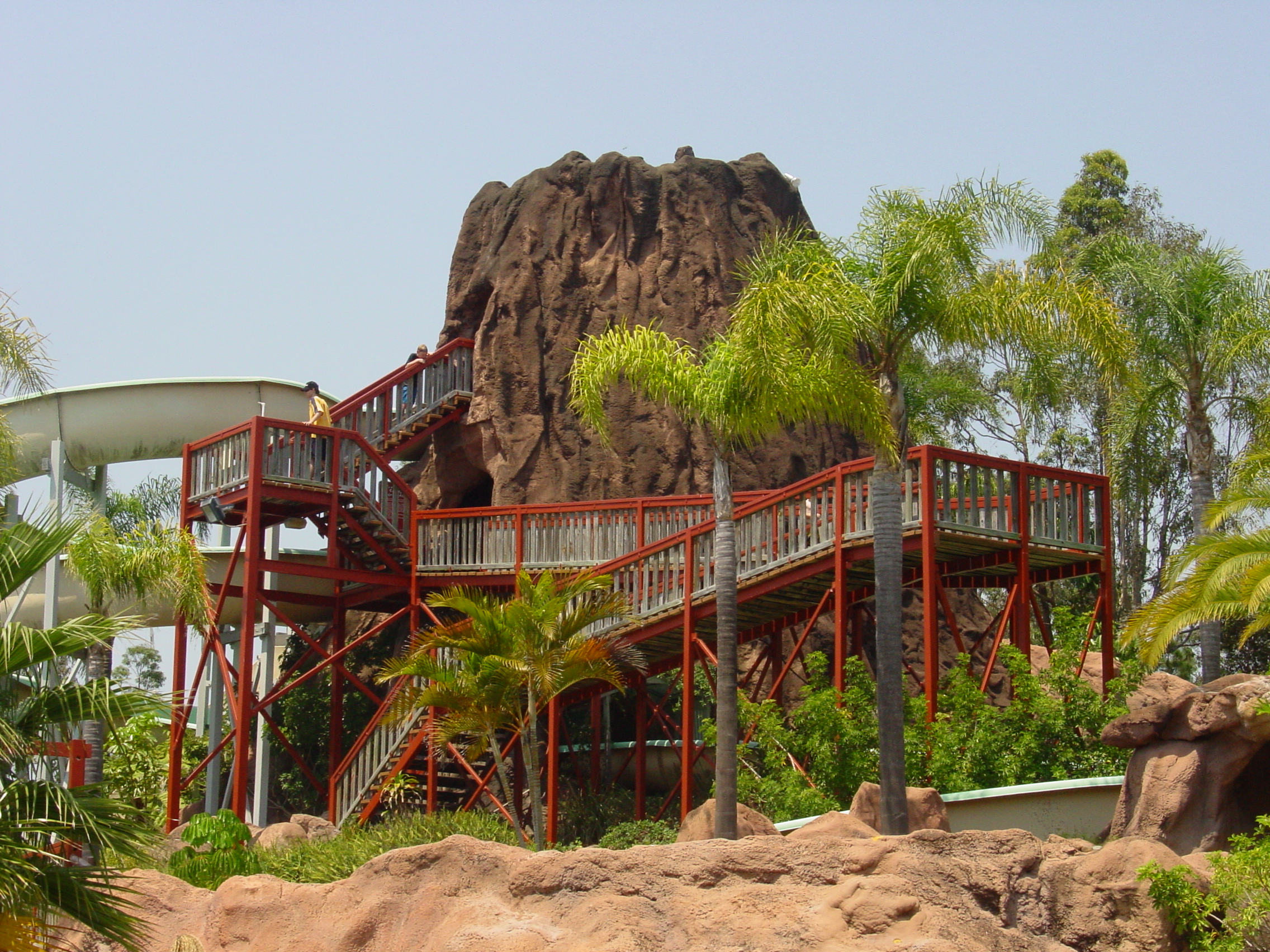 A view up to the top of the Blue Lagoon mountain which housed the water park's 3 slides. Blue Lagoon at Dreamworld was closed in 2006, pre-empting the opening of WhiteWater World later in the year.